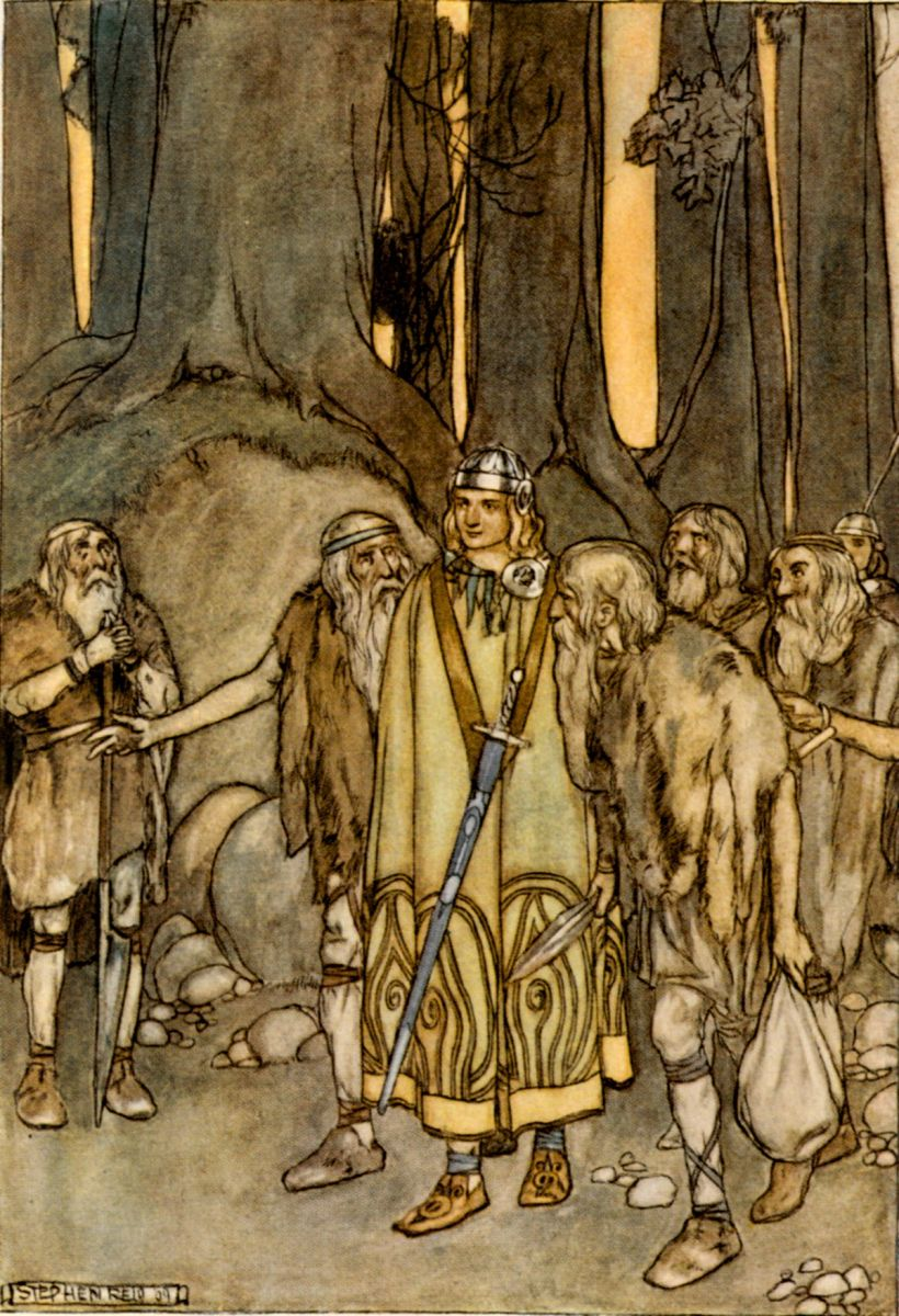 "And that night there was feasting and joy in the lonely hut" The High Deeds of Finn and other Bardic Romances of Ancient Ireland, by T. W. Rolleston, et al, Illustrated by Stephen Reid